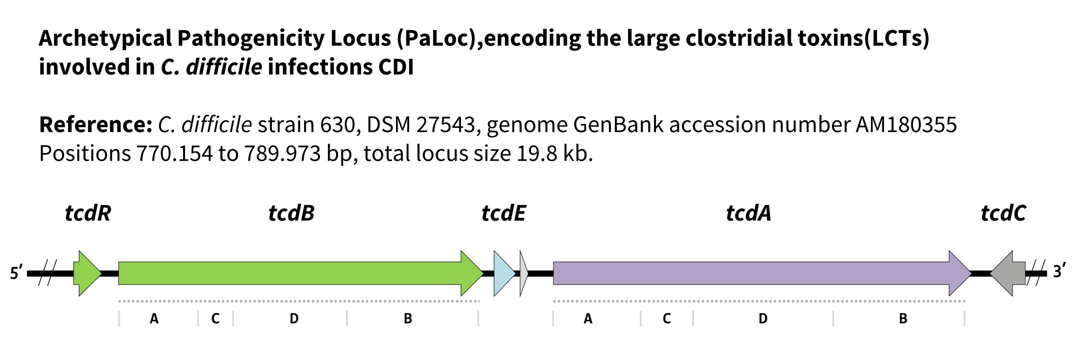 Figurerepresentsthelocus of 19.8 kb found in C.difficile strain 630, DSM 27543 , GenBankaccessionnumberAM180355 , positions 770.154 to 789.973 bp. Genes depicted (left to right, 5’-3’ downstreamforward) are: 1. tcdD pathogenicity locus conserved protein, coexpressed and found in several operons encoding toxins in other species, with DNA repair and recombination activityreportedin highlysimilar archaealpeptides and Sigma factor positive regulator. 2. tcdB Clostridium_difficile_toxin_A, a cytotoxin, a very important protein for virulence. 3. tcdE, an Holin-like protein secretion function. 4. tcdA, Clostridium_difficile_toxin_A , enterotoxin. 5. tcdC, putative peptide (coding reverse) and negative regulator. Toxin B and Toxin A have a similarity at the DNA level. They both a functional toxin protein of 4 domains, encoded in glycosylating enzymatic domain A, autocatalytic processing domain cysteine protease C, translocating domain D and binding C-terminal domain B. The protein undergoes postransductional modifications and the domains act in synergic effect to achieve pathogenic effects in the cell targeting Rho family of GTPases . It must be noted that the loci composition has been found to be variable across different strains. There are clinical isolates not having a functional toxin A (pseudogene), or having a large transposon insertion between toxin A and toxin B, or not having any functional toxin gene. Also there are strains having differences in the 5' regulator, having a pseudogene or small accessory genes.